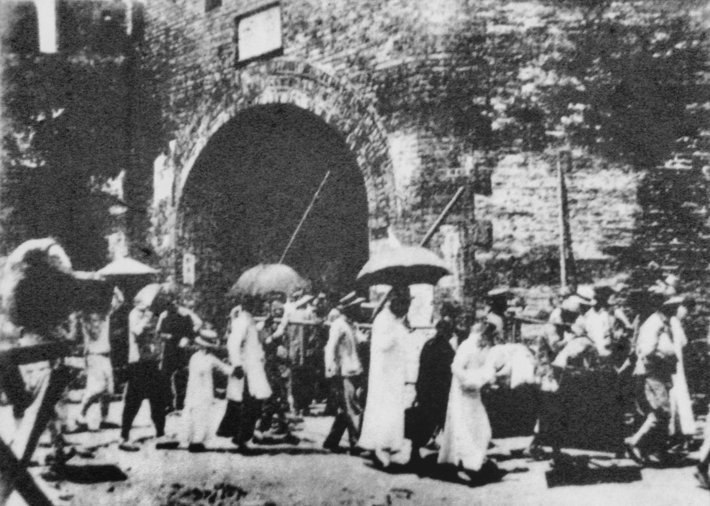 Shanghai_Old_City_Small_Eastern_Gate